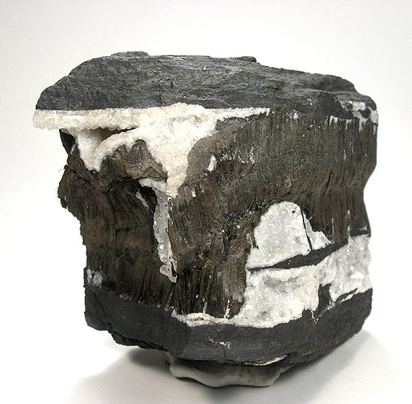 Manjiroite, Todorokite, Calcite Locality: Smartt Mine, Kalahari manganese fields, Northern Cape Province, South Africa (Locality at ) Size: 10.7 x 9.1 x 8 cm. An unusual specimen consisting of a mass of foliated manjiroite crystals, altering to todorokite. The cavities are filled with bright glistening calcite crystals! Pretty and unusual! Ex. Willy Israel Collection.